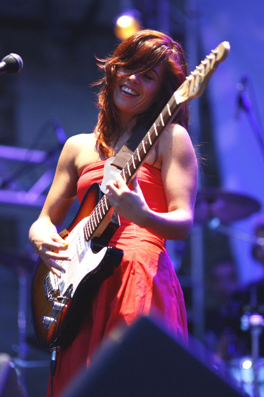 Babet at Paris Plage